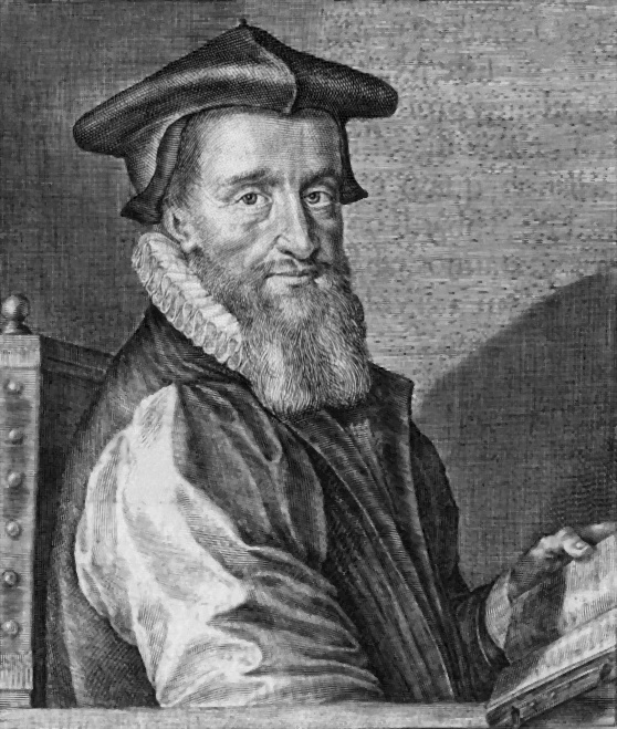 Robert Abbot (1560–1617)